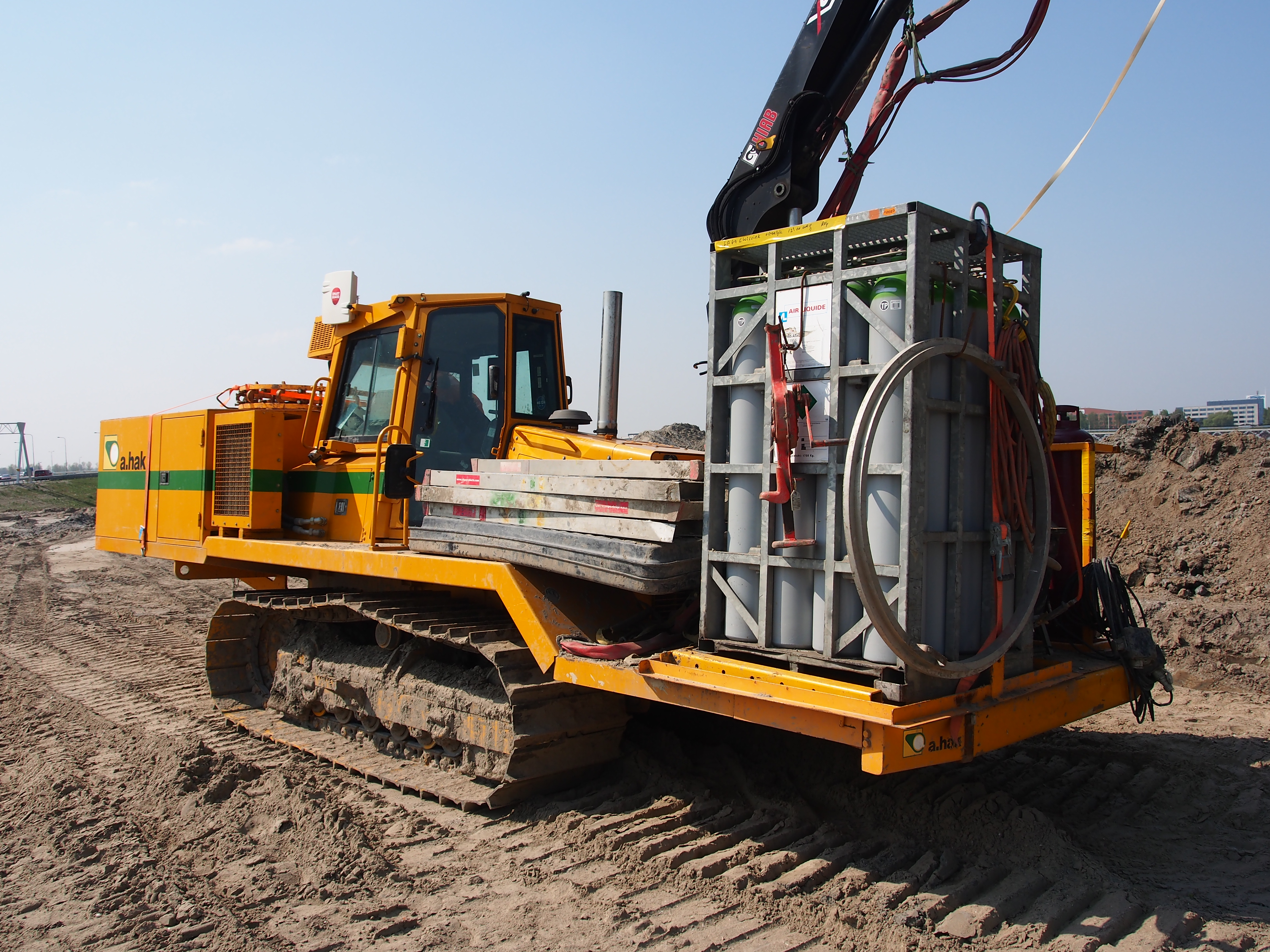 Photographed at Hoofddorp in The Netherlands.